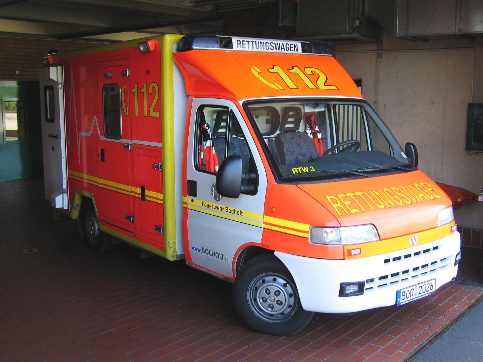 Volunteer Firefighter Ambulance at the Emergency Department of the St. Agnes Hospital, Bocholt, Germany.